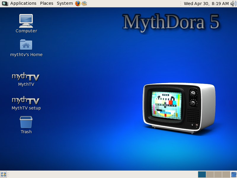 Screenshot of MythDora 5.0